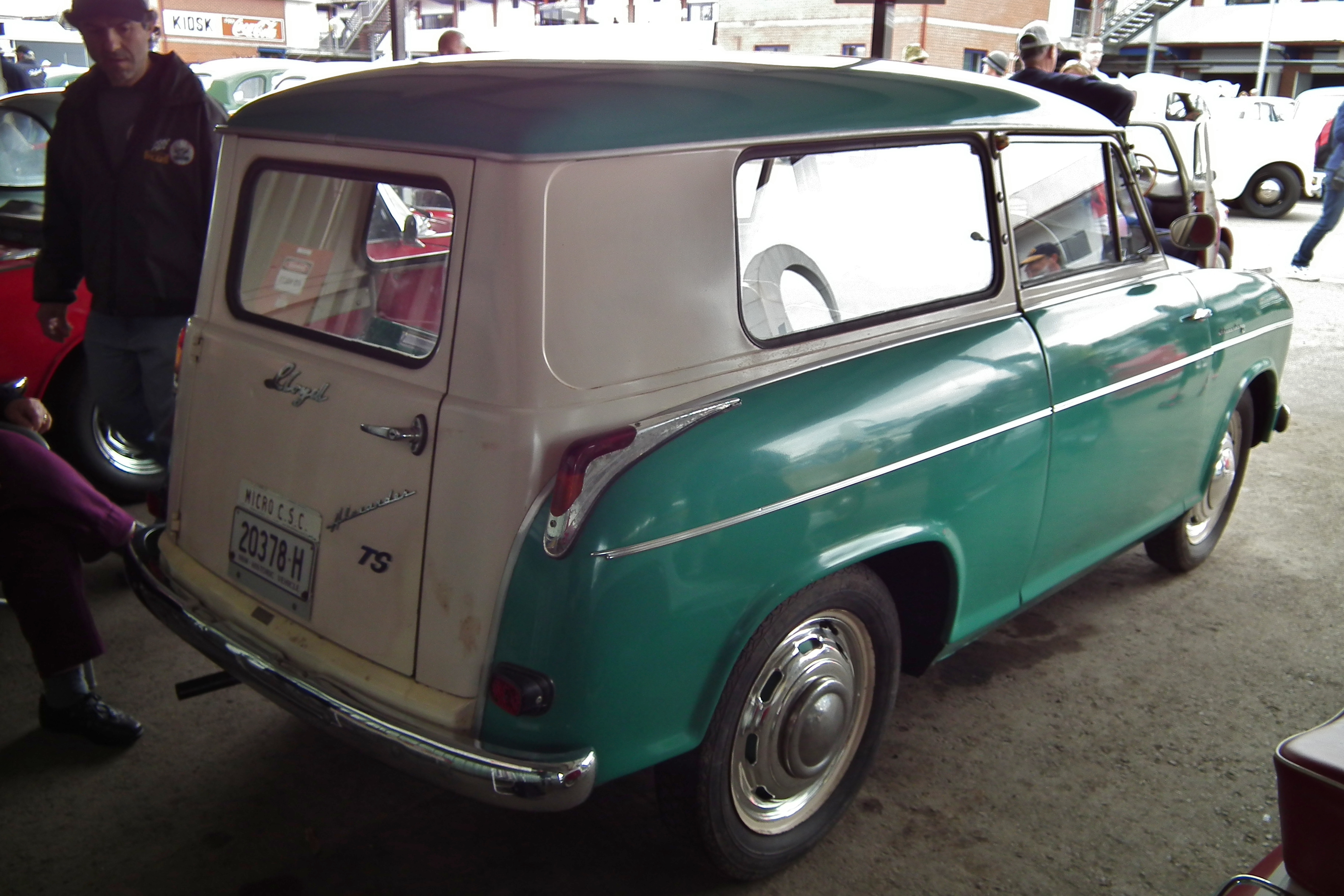 1959 Lloyd Alexander TS station wagon. These were imported and distributed by Sir Laurence Hartnett, and marketed as Lloyd-Hartnetts. Taken at Shannon's Eastern Creek Classic 2011, held at Eastern Creek Raceway Sydney.